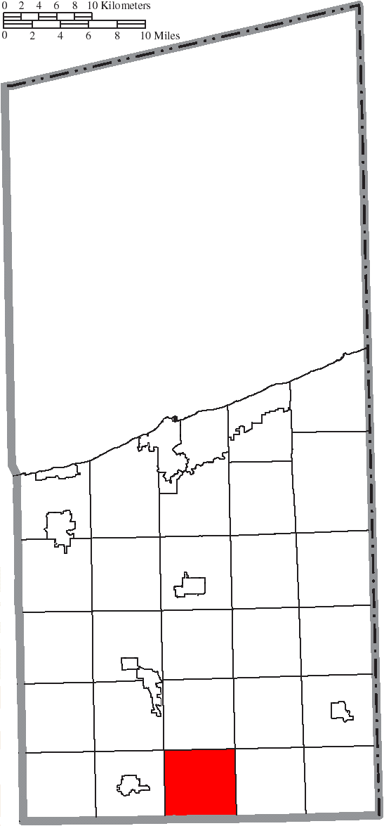 Map of the municipal and township boundaries of Ashtabula County, Ohio, United States, as of the 2000 census, with the location of Colebrook Township highlighted. Township borders are shown only in unincorporated areas in order to differentiate incorporated and unincorporated areas more clearly.